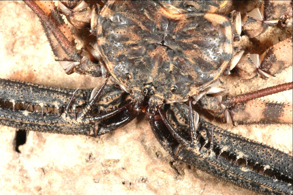 Close-up of a tailless whip scorpion, Damon diadema, showing its head (cephalon), eyes and pedipalps.